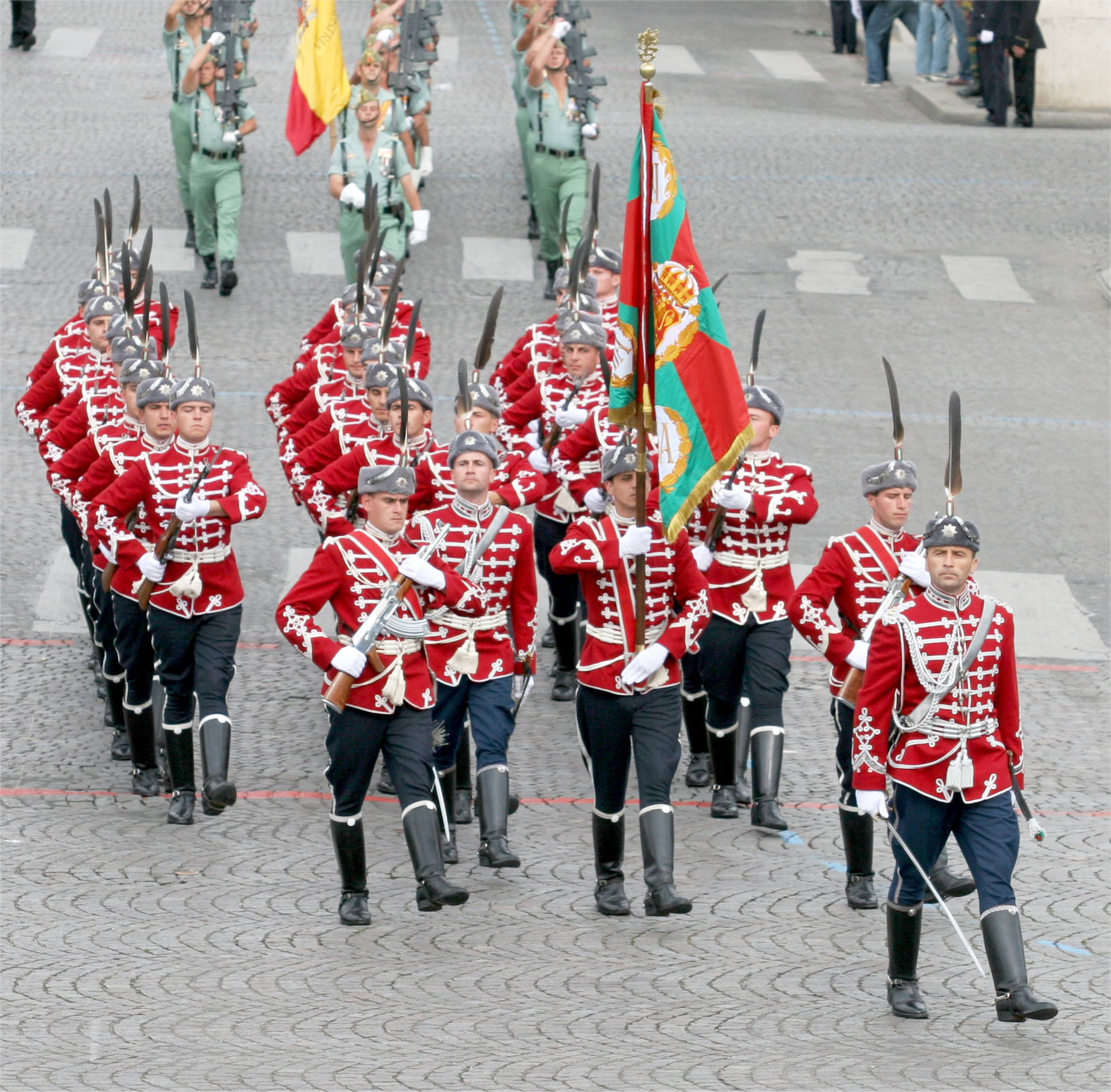 A detachment of the National Guards Unit of Bulgaria marching in the 2007 Bastille Day military parade on the Avenue des Champs-Elysées in Paris